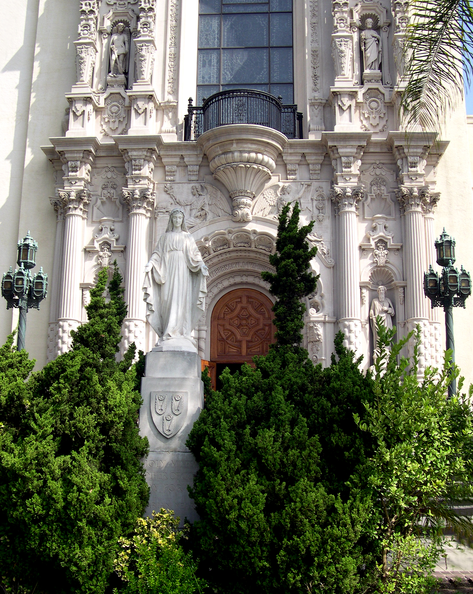 St Vincent de Paul Catholic Church (facade), Los Angeles, with statue of the Virgin Mary commemorating the first Marian Year 1954